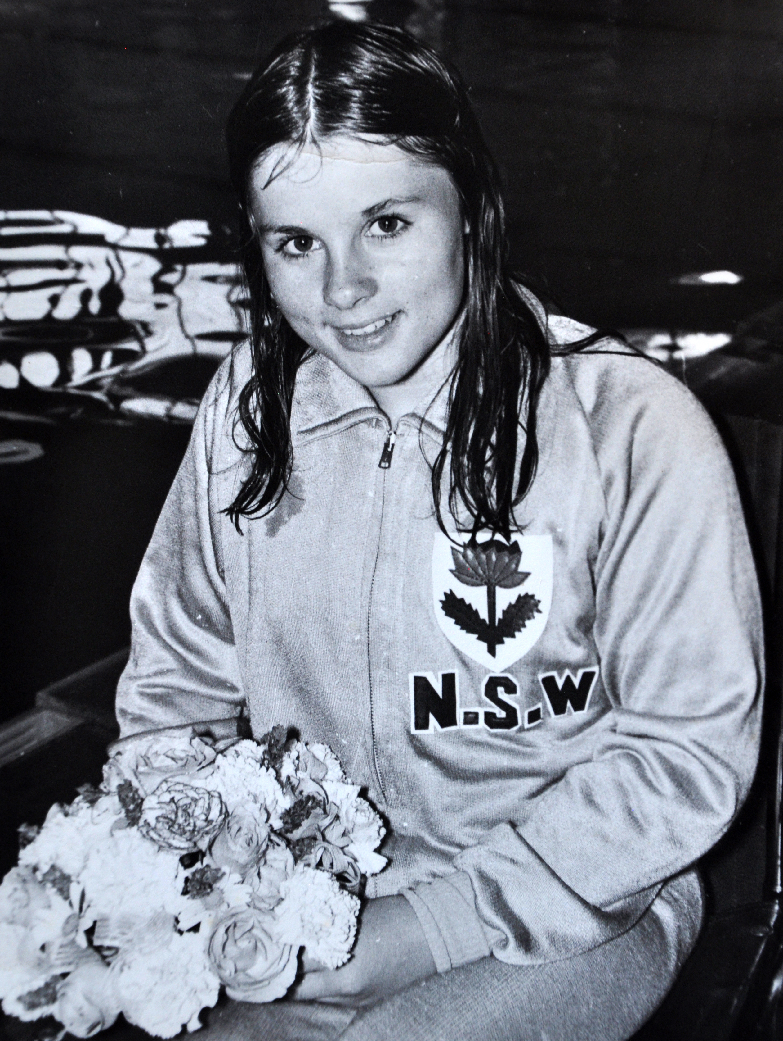 Australian Paralympic swimmer Pauline English in her New South Wales representative tracksuit with a posy of flowers.